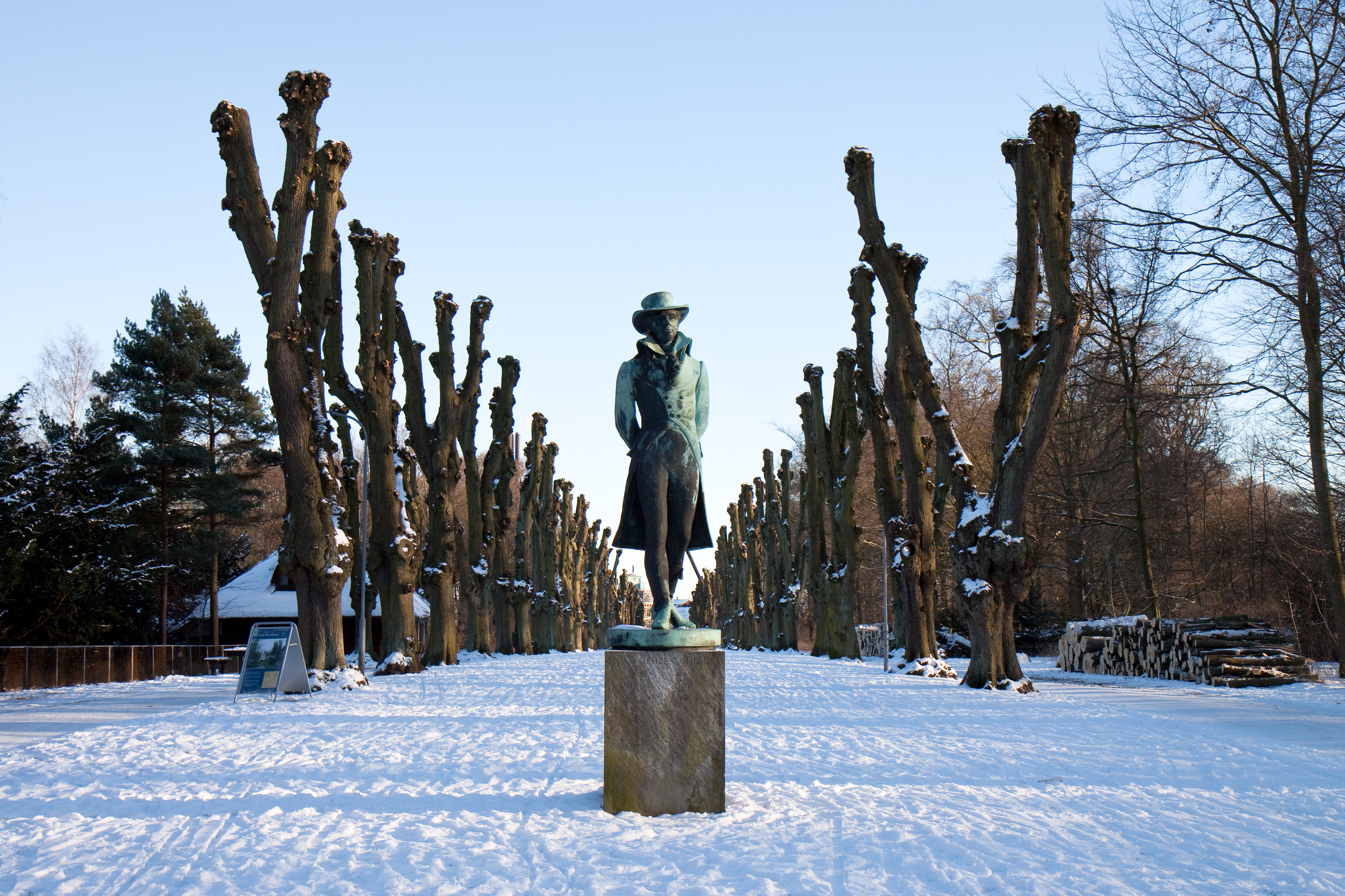 Sculptor Julius Schultz' statue of Adam Oehlenschläger from 1897. It was originall erected in Allégade but in 1953 it was moved to its current location in Søndermarken Park where it faces Oehlenschläger's childhood home Frederiksberg Palace.